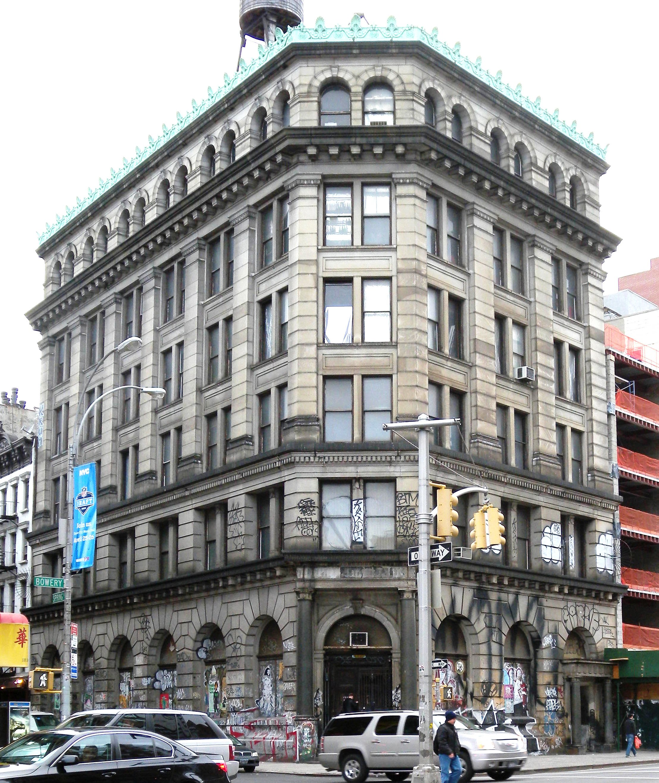 Looking northwest across Bowery at 190 Bowery, former Germania Bank on a cloudy afternoon.